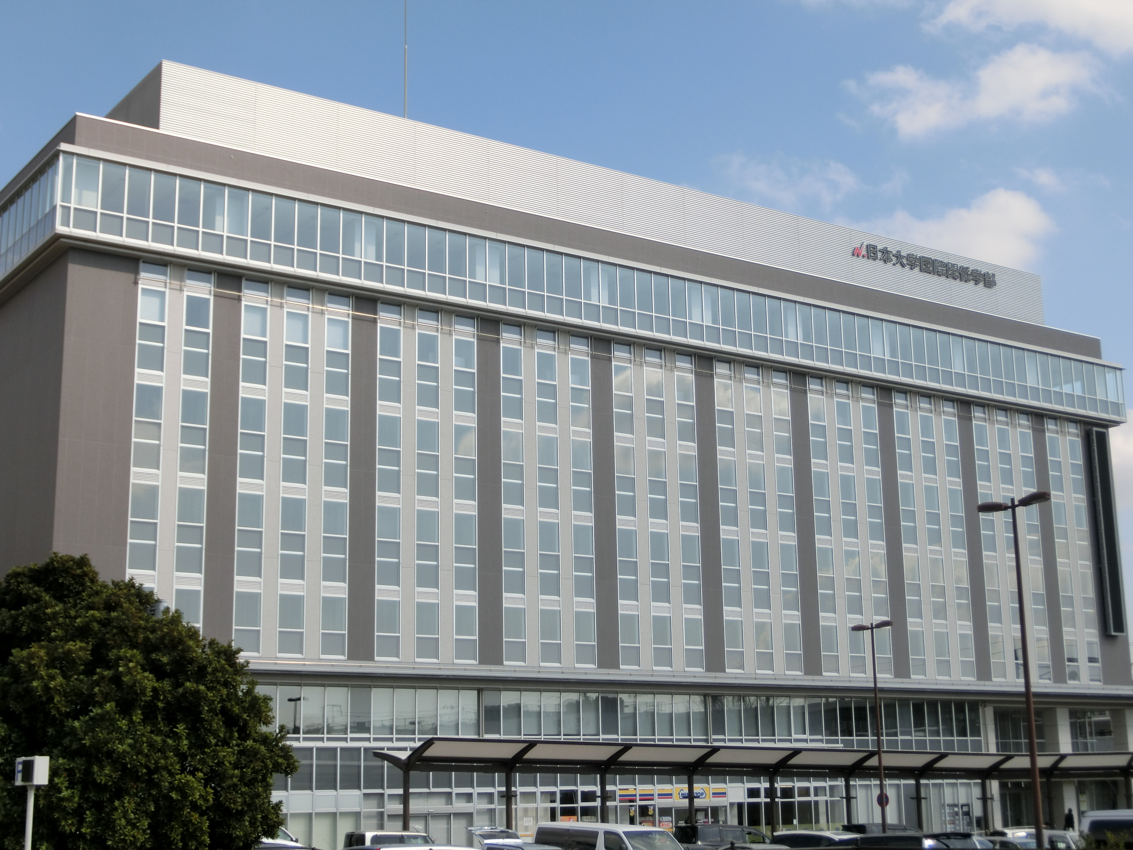 Nihon University Mishima Eki Kitaguchi Campus